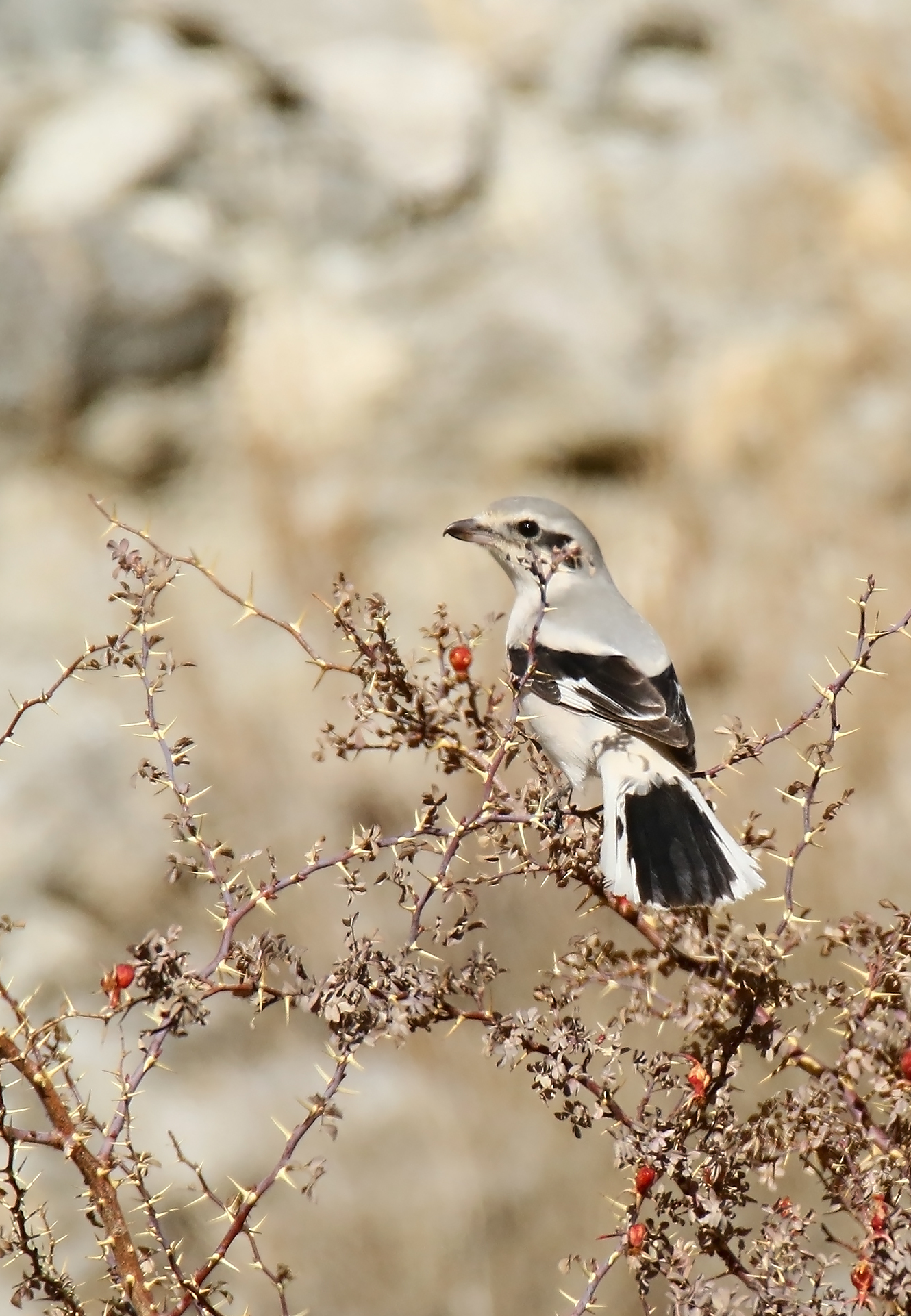 Lanius excubitor pallidirostris, probably adult male, at Ghulkin Pasture, Gojal, Gilgit-Baltistan, Pakistan